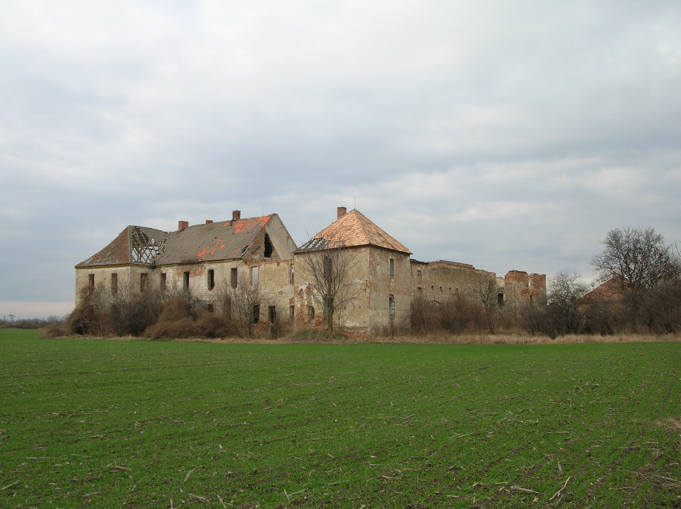 Nebojsa Fortified Manor-House, Galanta-Nebojsa, Slovakia